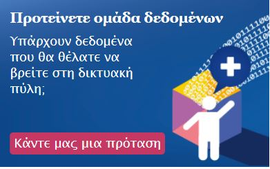 Screenshot from EUODP